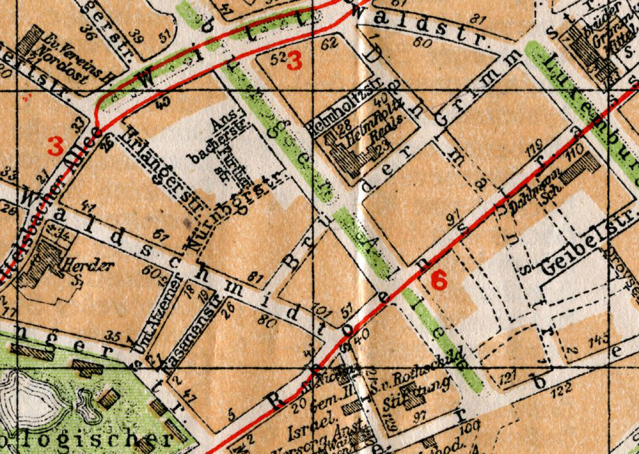 1920: This crop of the contemporary city map of Frankfurt am Main, Hesse, Germany is focussing on Helmholtz Realschule (today: Helmholtzschule, Gymnasium) at Habsburgerallee. The school was opened as a Realschule for boys with pre-school classes in 1912. The crop shows the situation between Zoo, Herderschule, Brüder-Grimm-Schule, and Dahlmannschule which is unchanged until today. The ground plan of Helmholtz Realschule shows annexes of the main school building which were destroyed through Allied bombardment in WWII and not re-erected after war. In the Northwest was the annex building for the school's director and its beadle.